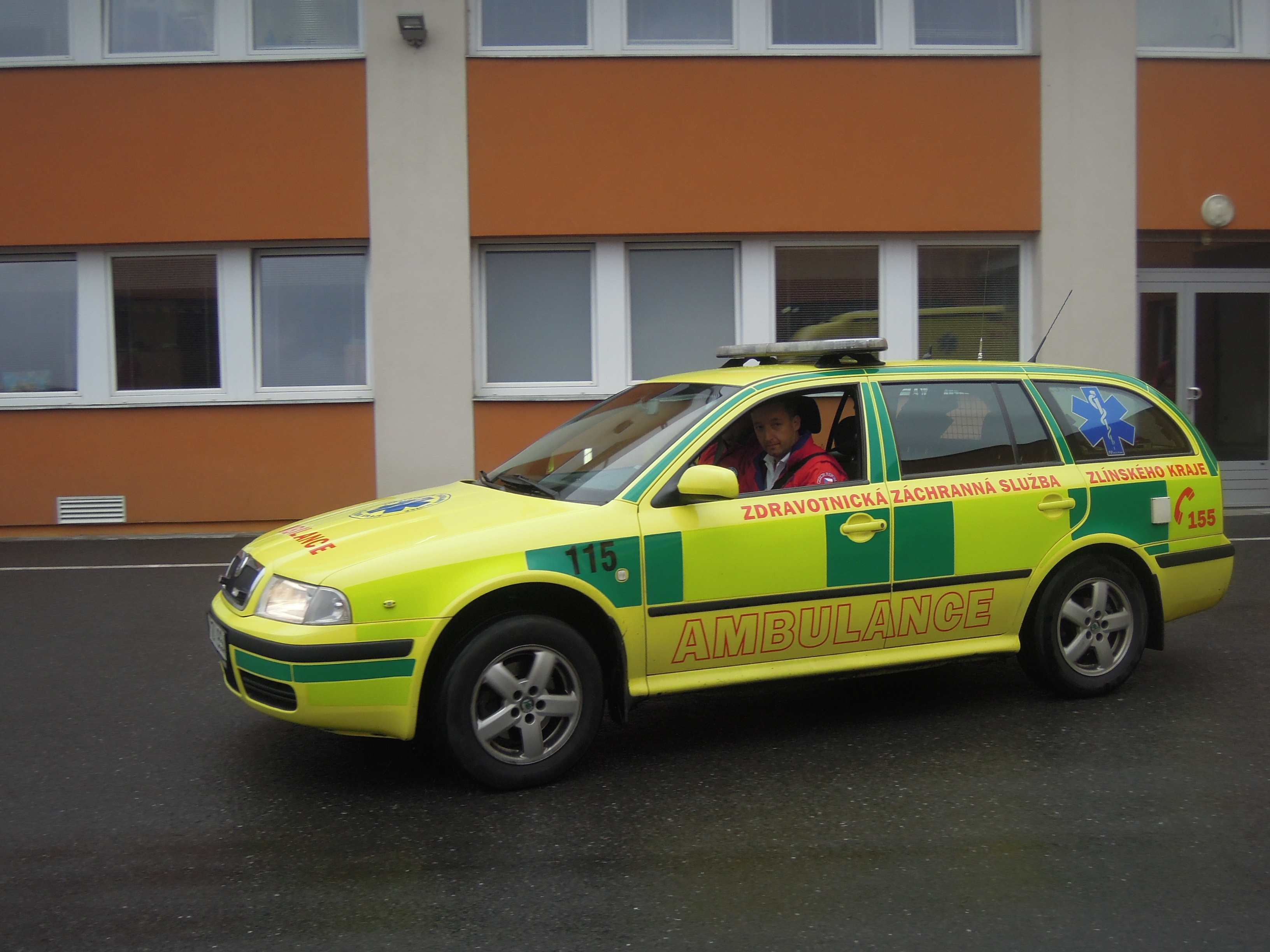 Ambulance vehicle Škoda Octavia Combi of Zdravotnická záchranná služba Zlínského kraje in Zlín, Zlín Region, Czech Republic